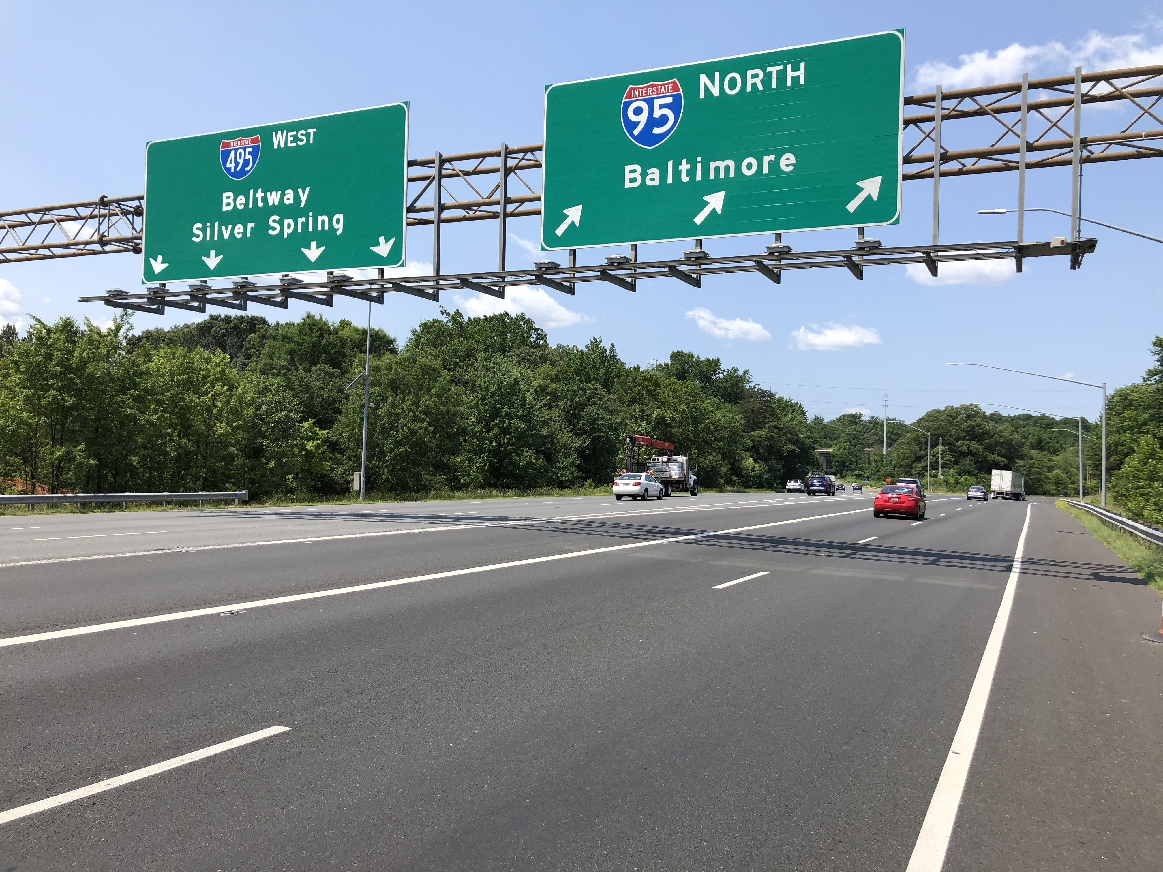 View north along the outer loop of the Capital Beltway (Interstate 95 and Interstate 495) at the split between Interstate 95 North towards Baltimore and Interstate 495 West (Capital Beltway) towards Silver Spring in Beltsville, Prince Georges County, Maryland